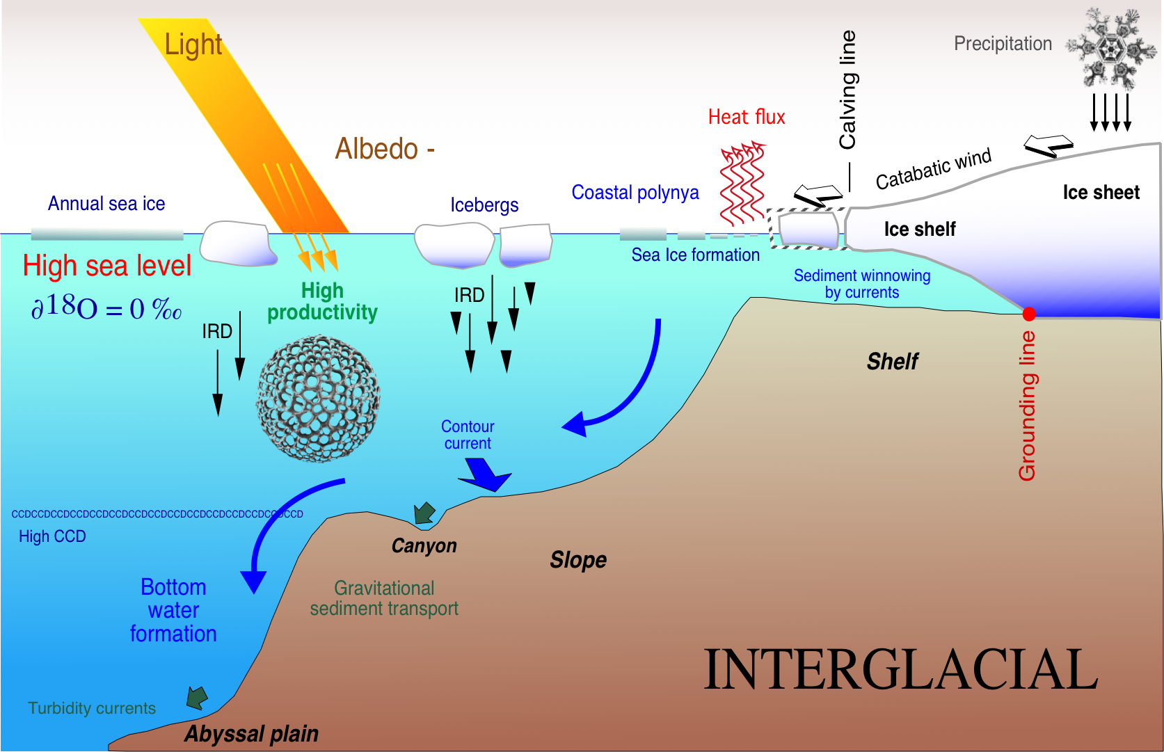 Scetch of the glaciomarine sedimentation at the margin of an ice-covered continent during interglacials (a) and during glacials (b). (a) During interglacials, sediment is eroded by the continental ice and rafted by icebergs. Sedimentation in the proximal areas of an ice covered continent are dominated by ice rafted debris (IRD), gravitational transport down the slope, supplemented by plankton shells and the hemipelagic sedimentation from the water column. A lower albedo during summer is due to a reduced sea ice coverage which on the other hand allows a higher heat flux into the atmosphere and thus evaporation and precipitation.